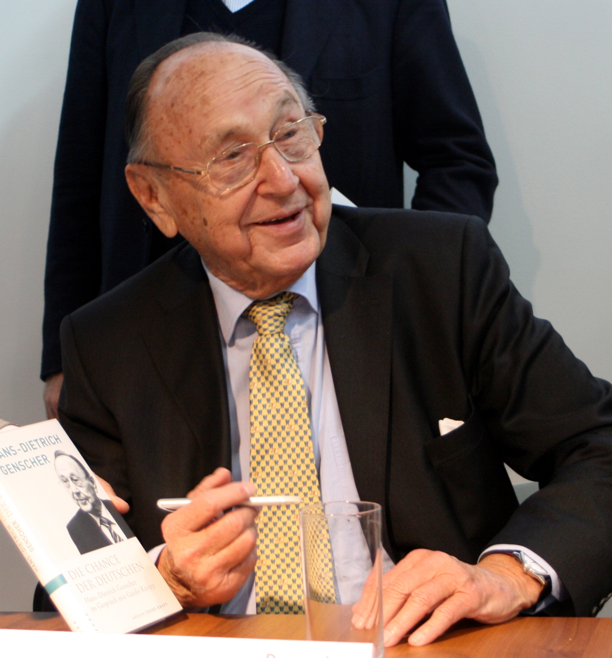 Hans Dietrich Genscher presenting its book "Die Chance der Deutschen" at the Frankfurter Buchmesse